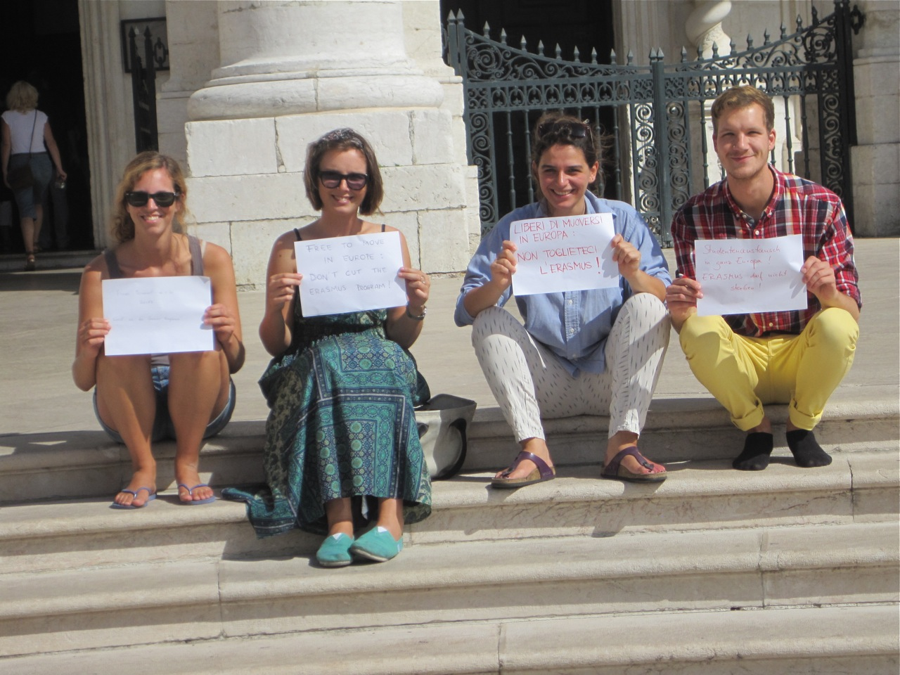 Erasmus allows students to study in a university in another country for a year... Here students in Lisbon, outside the Igreja de Santa Engrácia tell us they want to keep this program in four languages